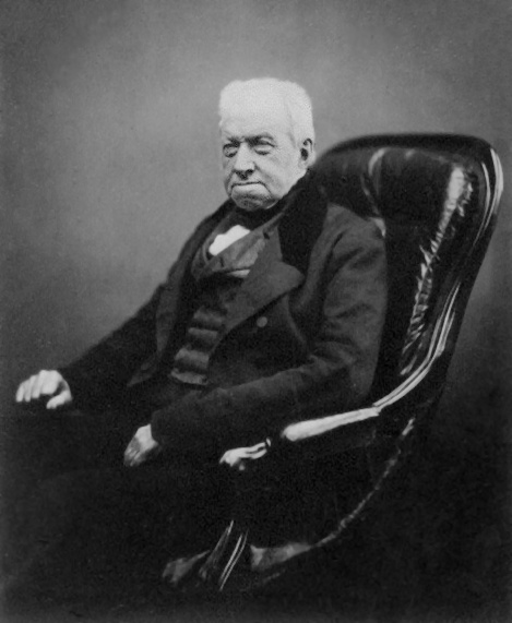 Robert Brown, botanist